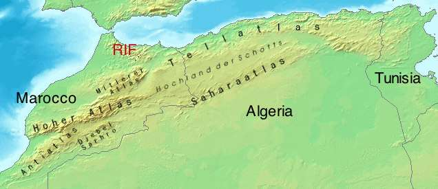 The Rif Mountains — within northwestern North African reliefs.